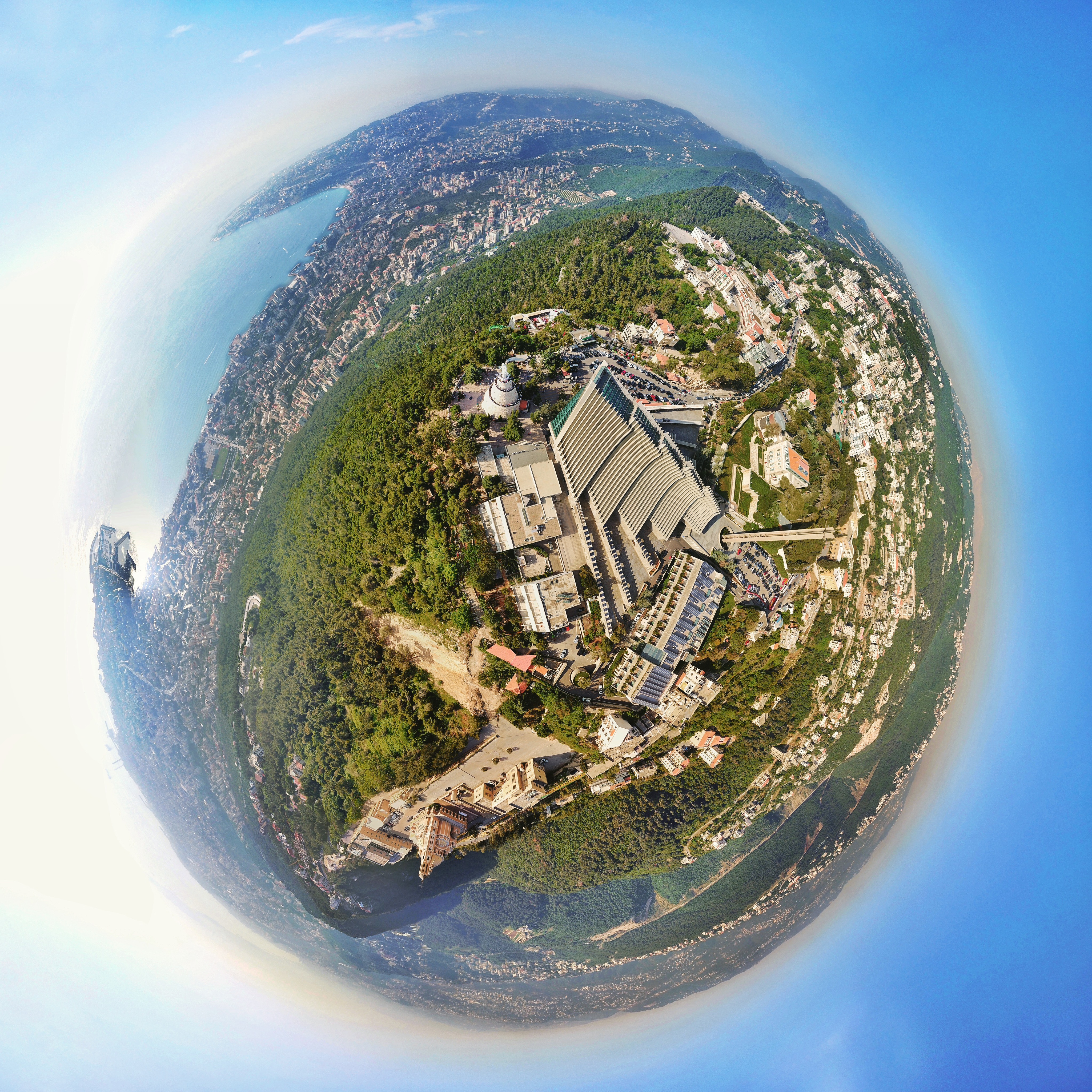 Jounieh Planet captured by Mikhael Bitar